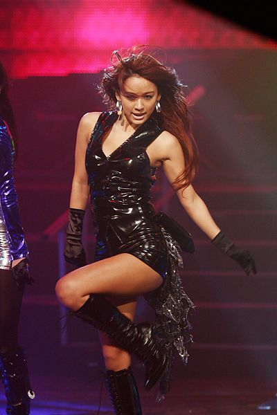 Lee Hyori at SBS Inkigayo in 2007.